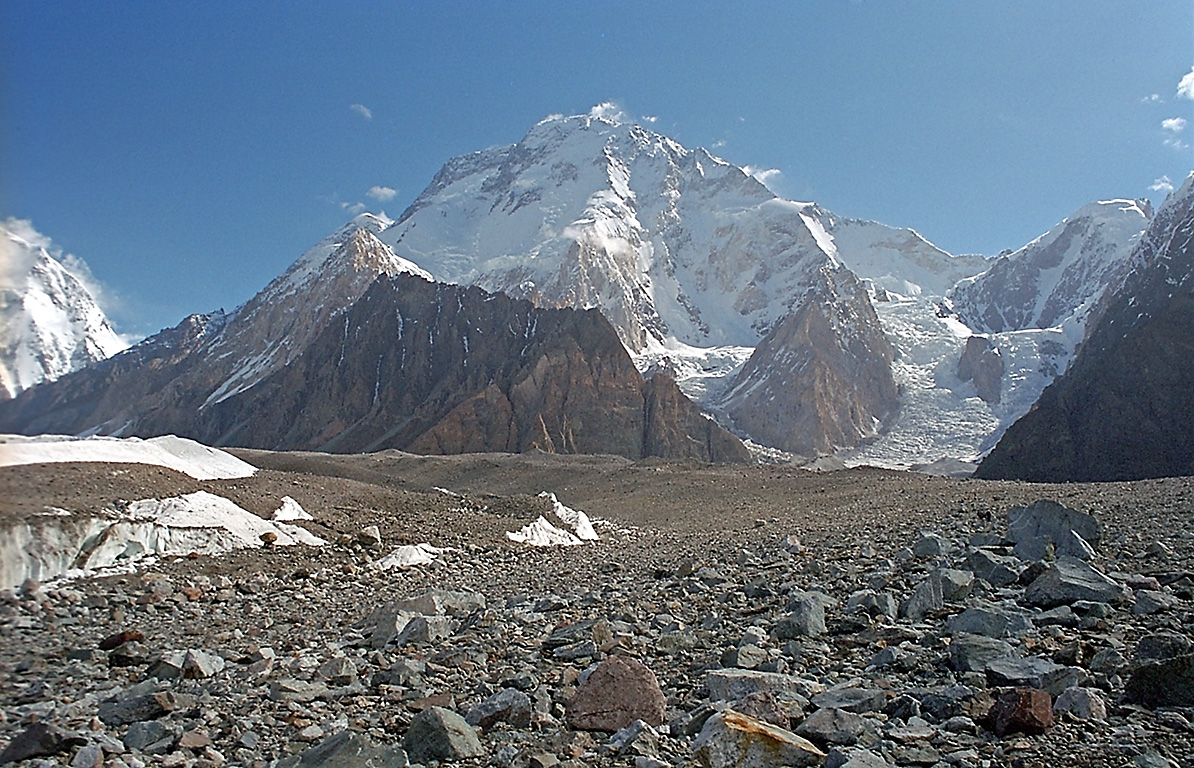 Broad Peak (seen from Concordia place)